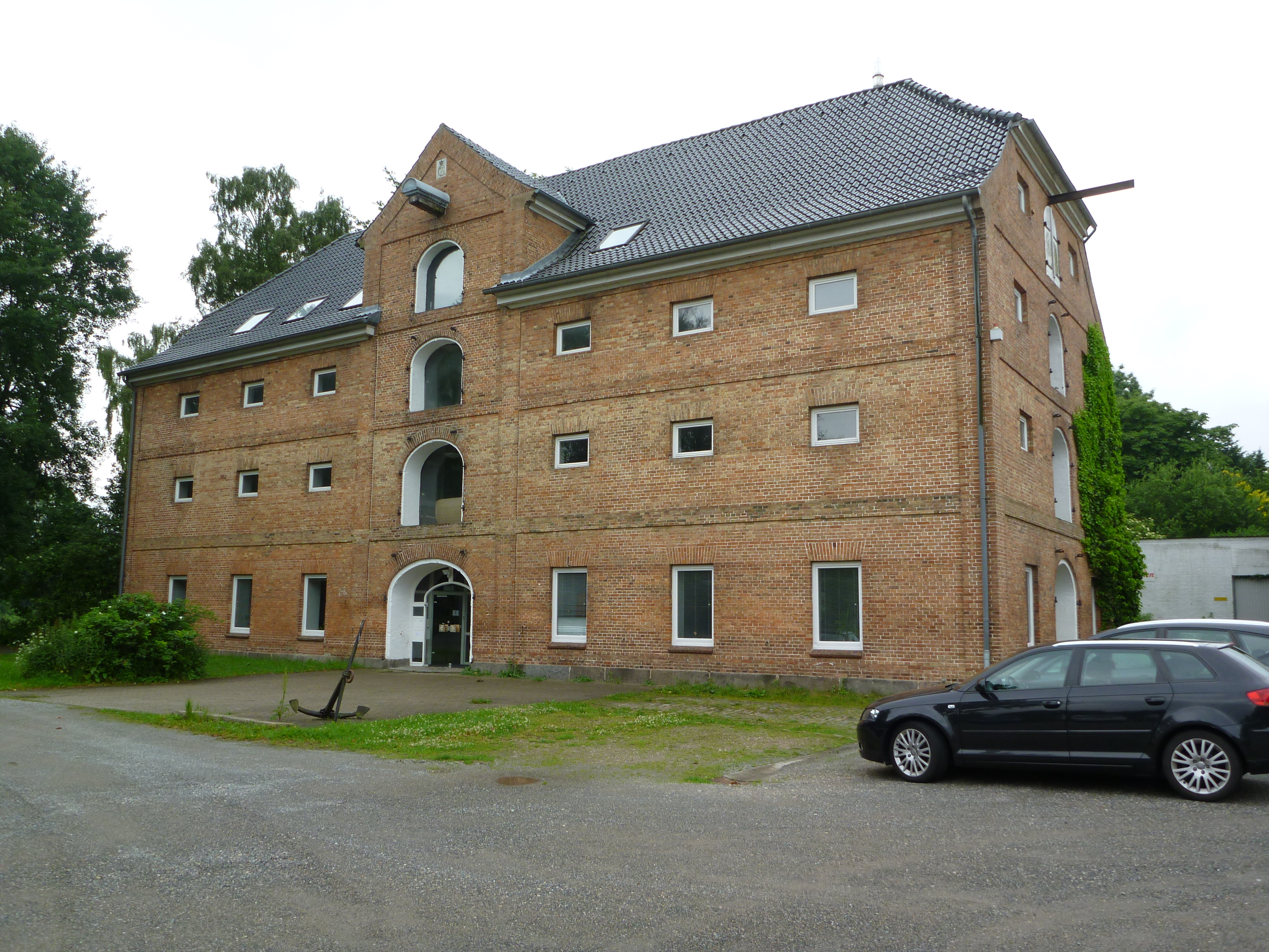 Hollesenstraße 15, a cultural heritage monument in Rendsburg